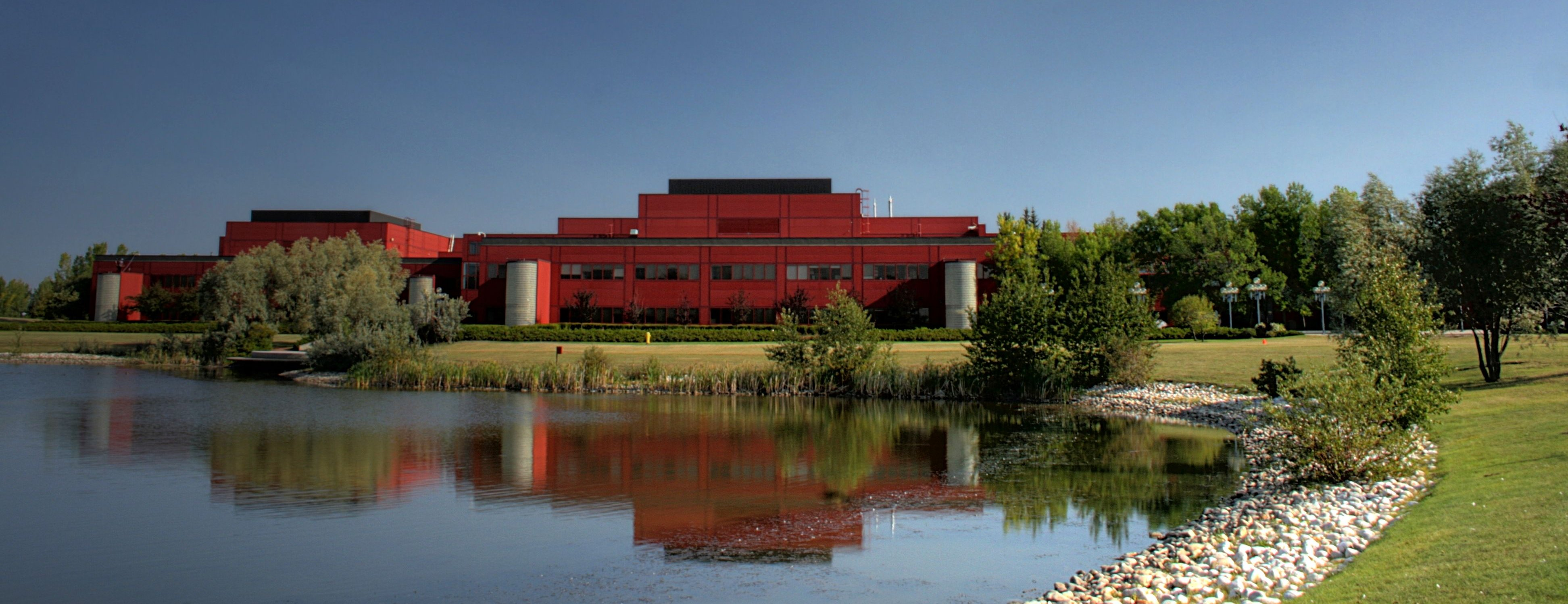 Buildings of the Alberta Research Council complex in Edmonton, Alberta, Canada.